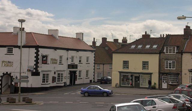 Kirkbymoorside centre. The Market place area.